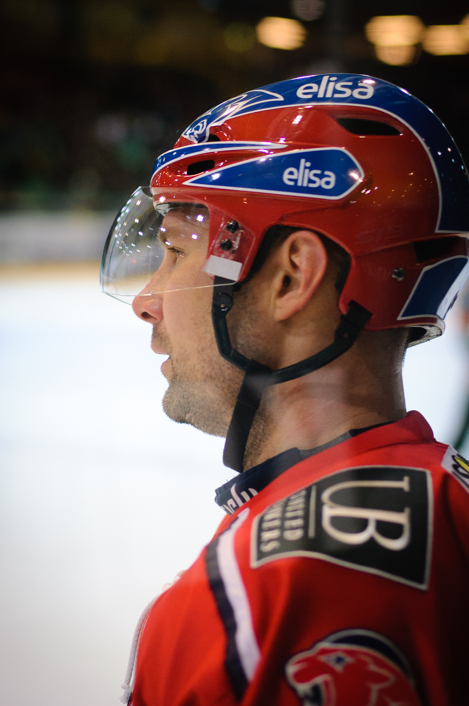 Finnish ice hockey player Kimmo Kuhta playing for IFK Helsinki against SaiPa Lappeenranta in the Finnish SM-liiga in Lappeenranta, Finland.